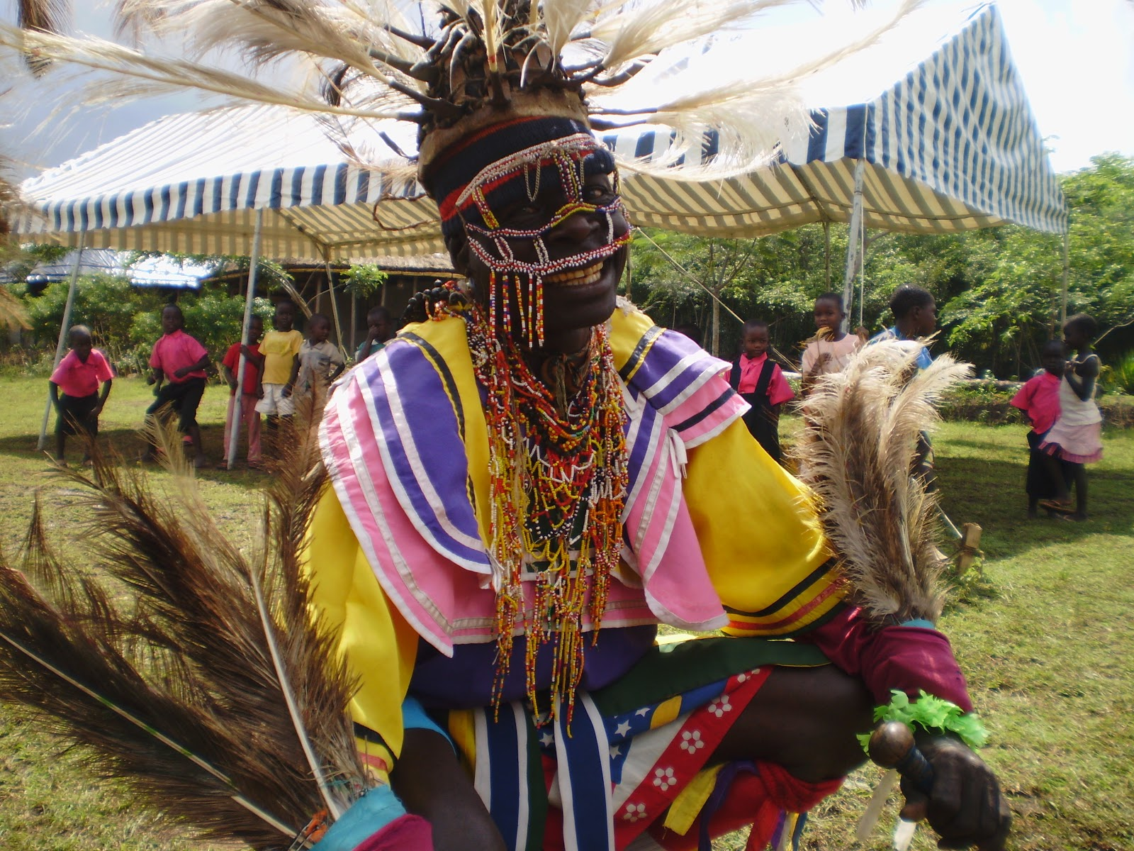 Luo dancer posing for photo This is an image of "African people at work" from Kenya